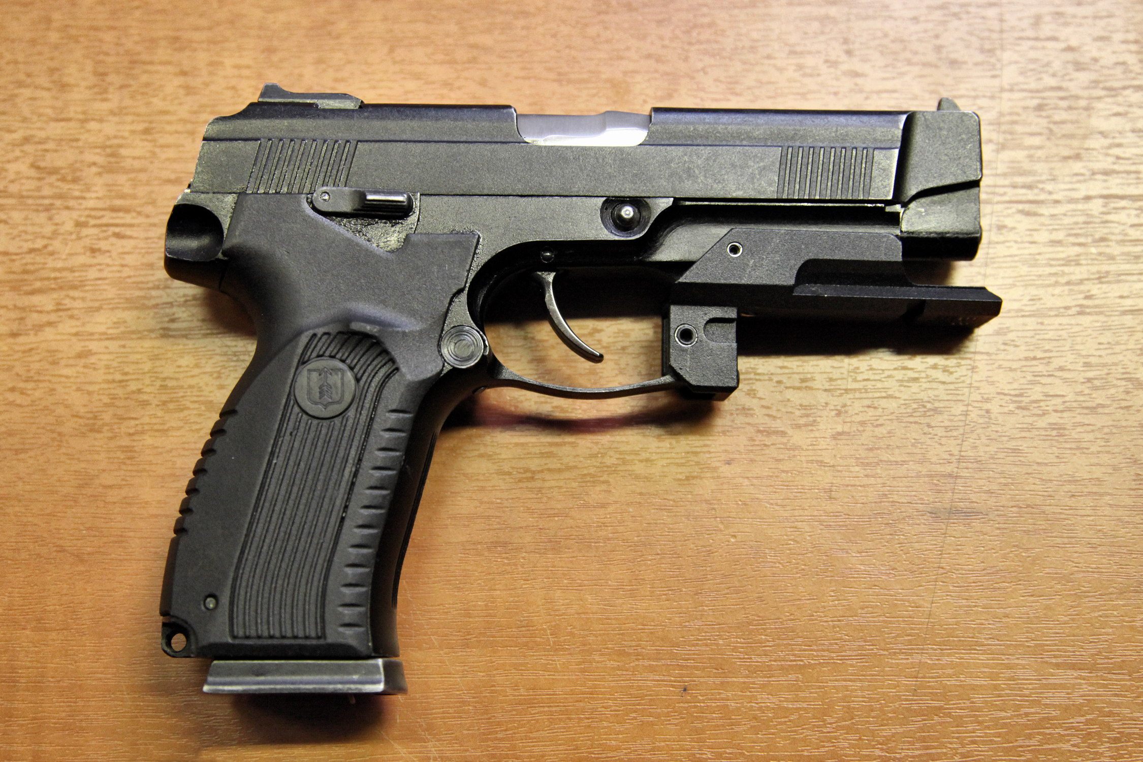 PYa Yarigin pistol - Moscow OMON